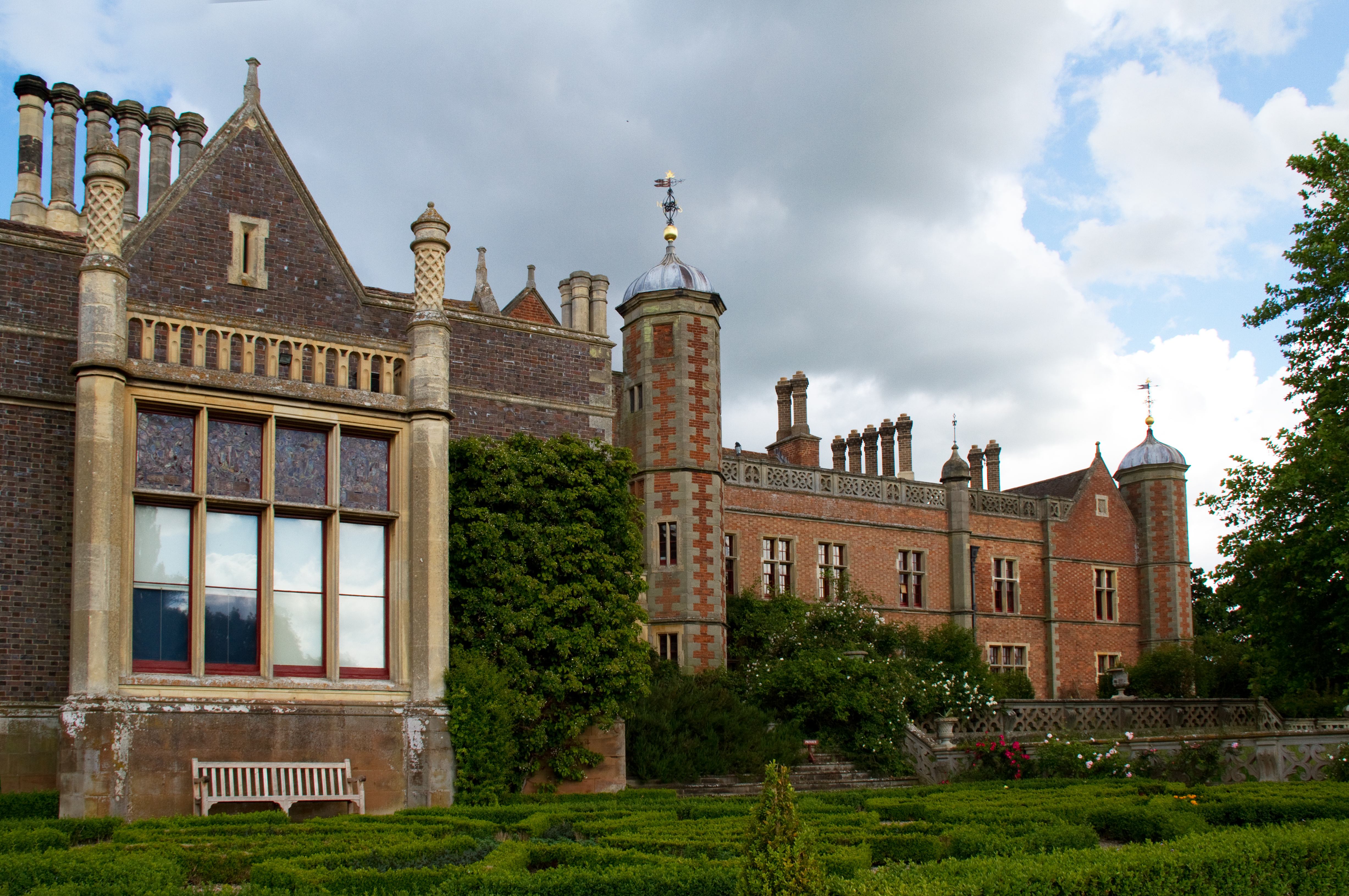 Built in 1558 and extended during the 19th Century